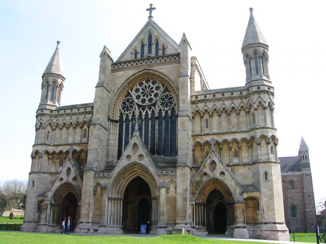 St Alban's cathedral. The west front as rebuilt in the late C19 by a benefactor, Lord Grimthorpe, to his own specification. From TL143071, looking East